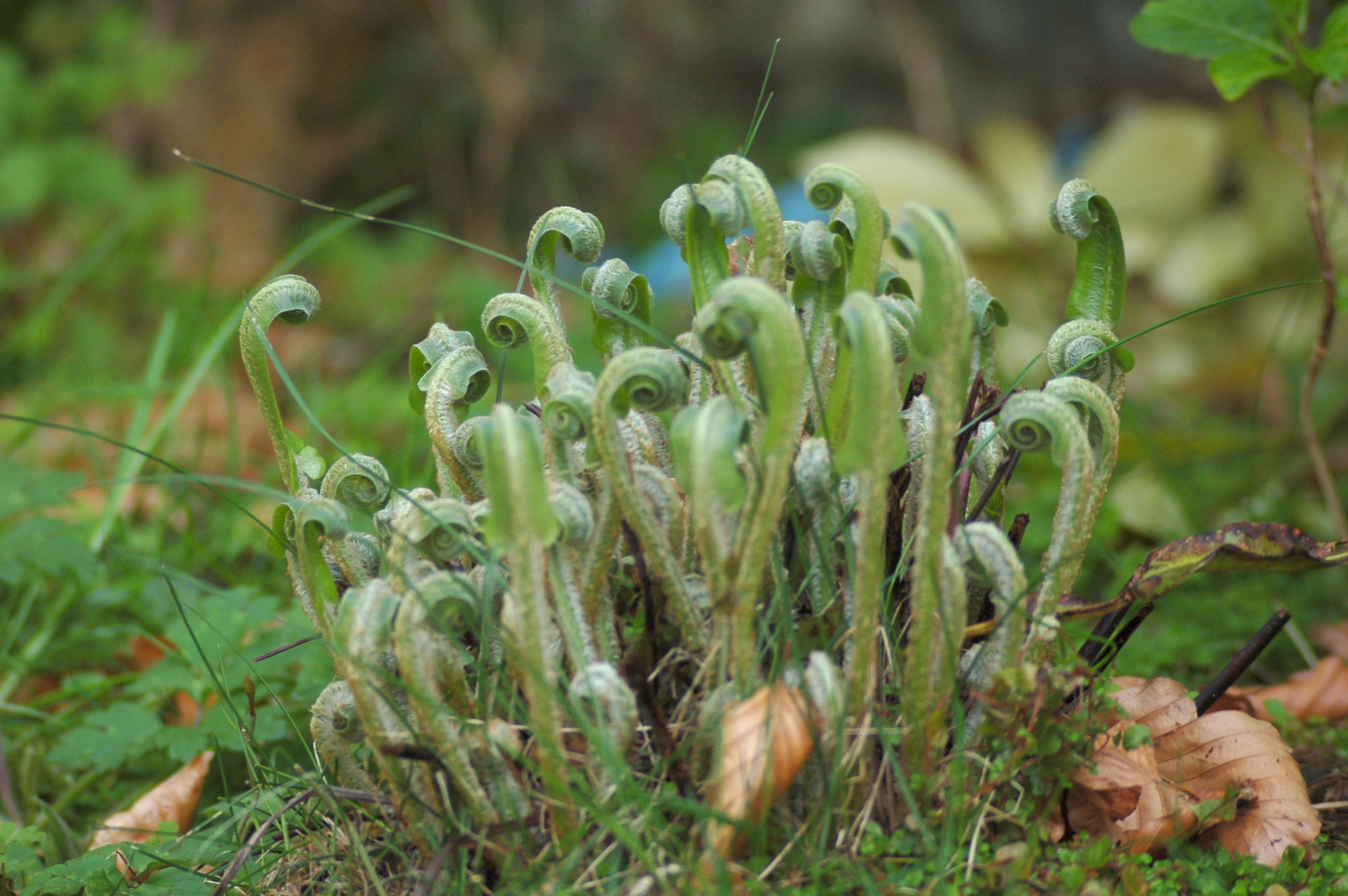 Joung leaves of Phyllitis scolopendrium ; in Coutances, Normandie, France